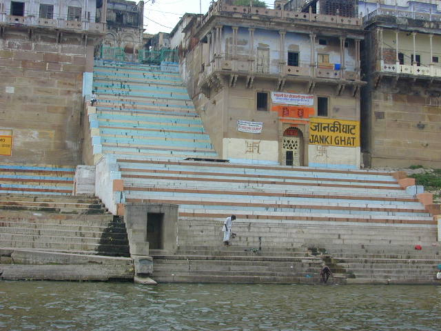 See Varanasi Development Cooperation Handbook/Stories/Responsible Development - Varanasi The Varanasi Heritage Dossier Kautilya Society Play media Vrinda Dar - How we got involved in heritage protection of Varanasi